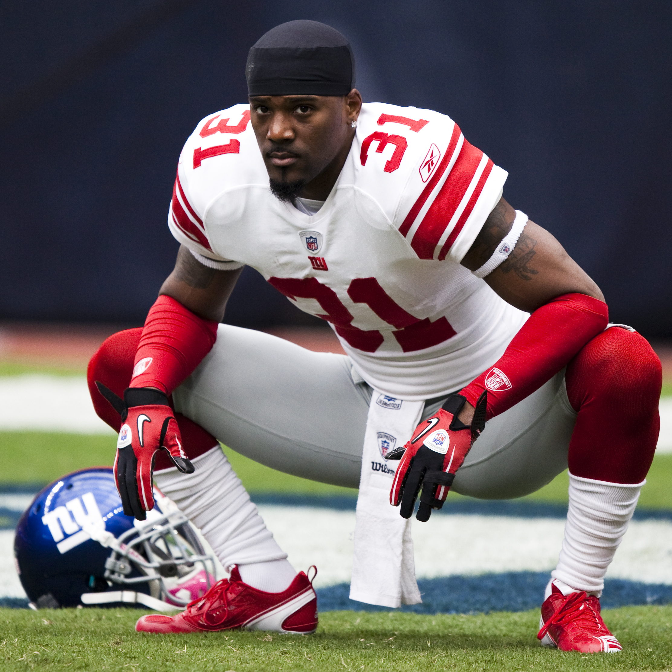 Aaron Ross during pre game. Houston Texans Vs. New York Giants. Reliant Stadium. Houston, Tx. 10-10-2010